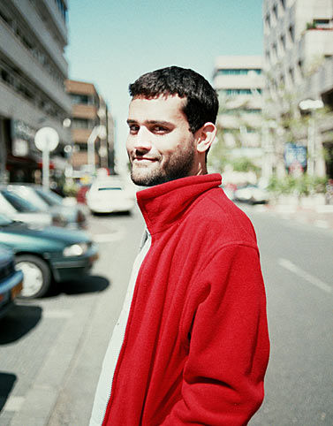 Amitai Sandy, Israeli Comic author